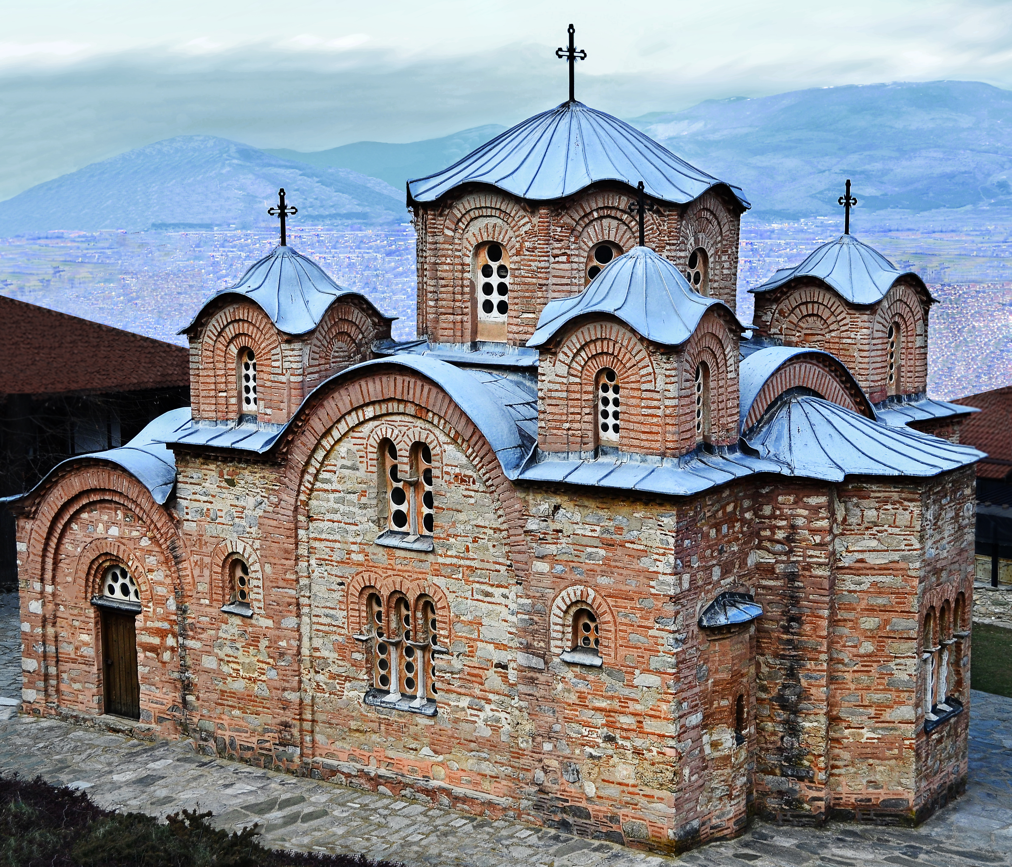 Mon astir saint Pantelejmon in Nerezi